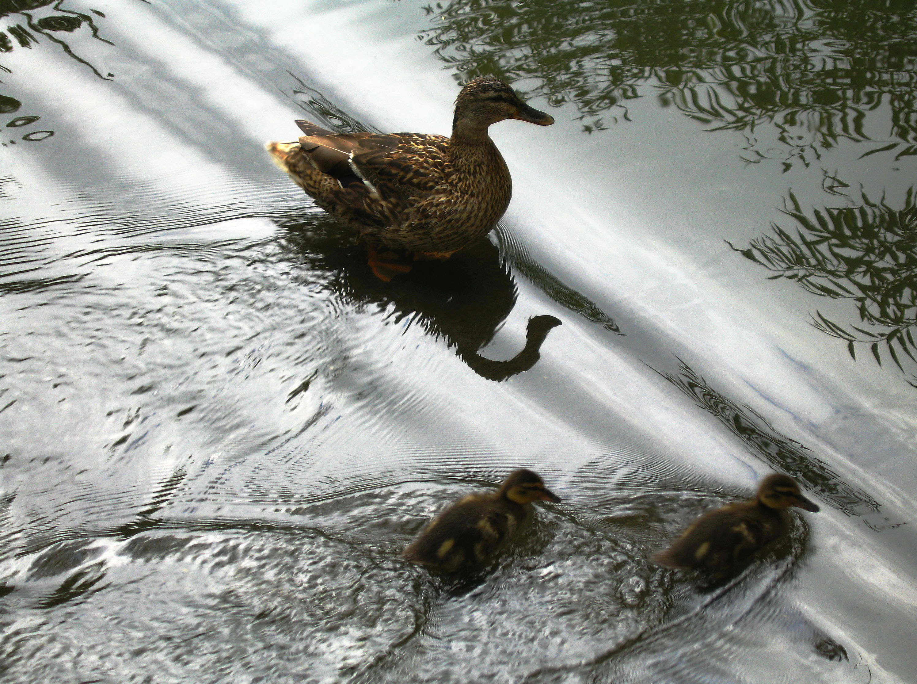 Anas platyrhynchos, or Mallard or Wild Duck.